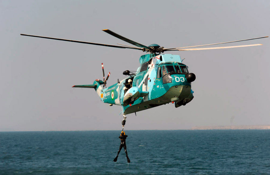 An IRIN SH-3 Sea King and a diver in Velayat-90 Naval Exercise.